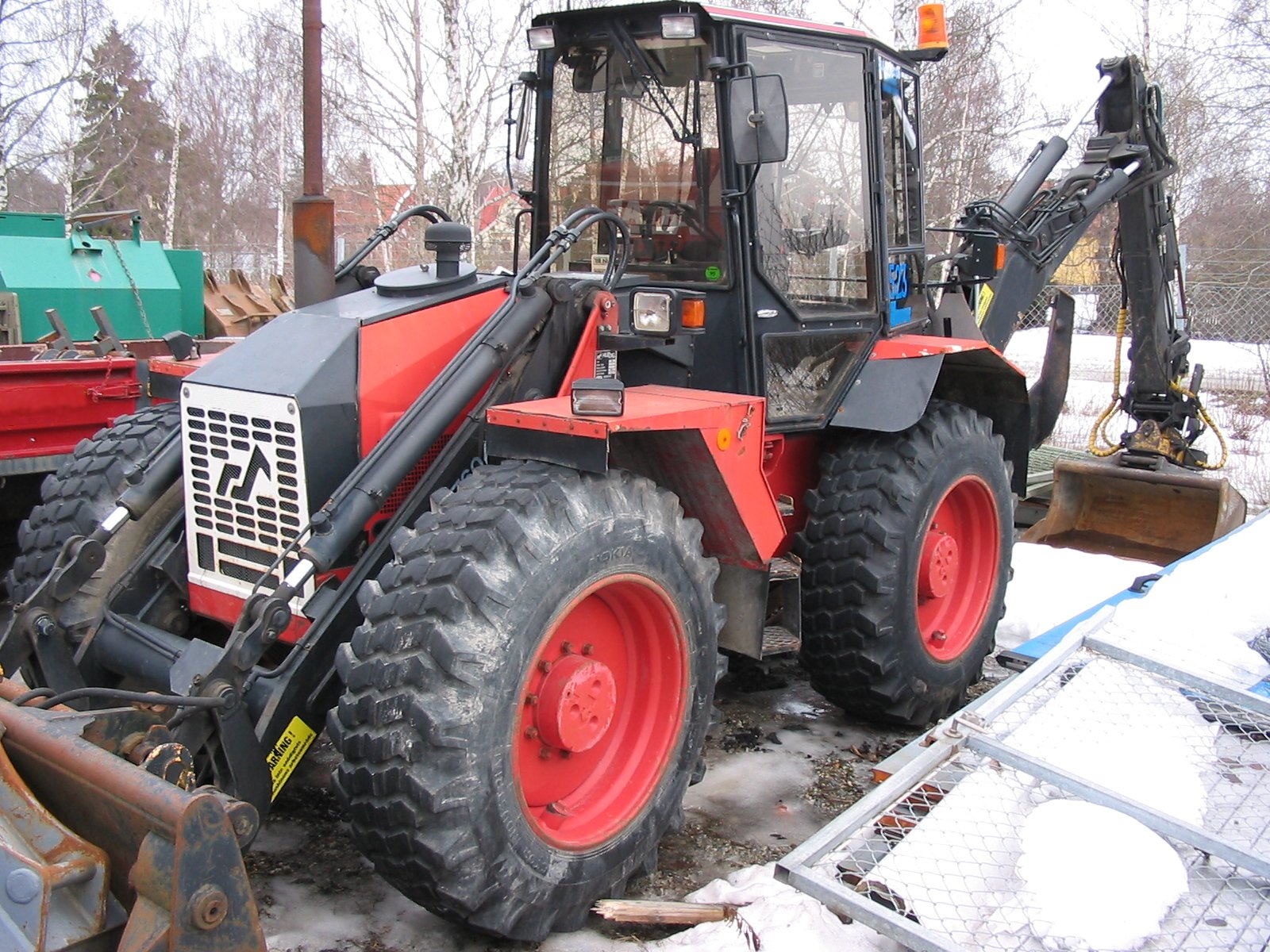 An older swedish backhoe loader made by Huddig.